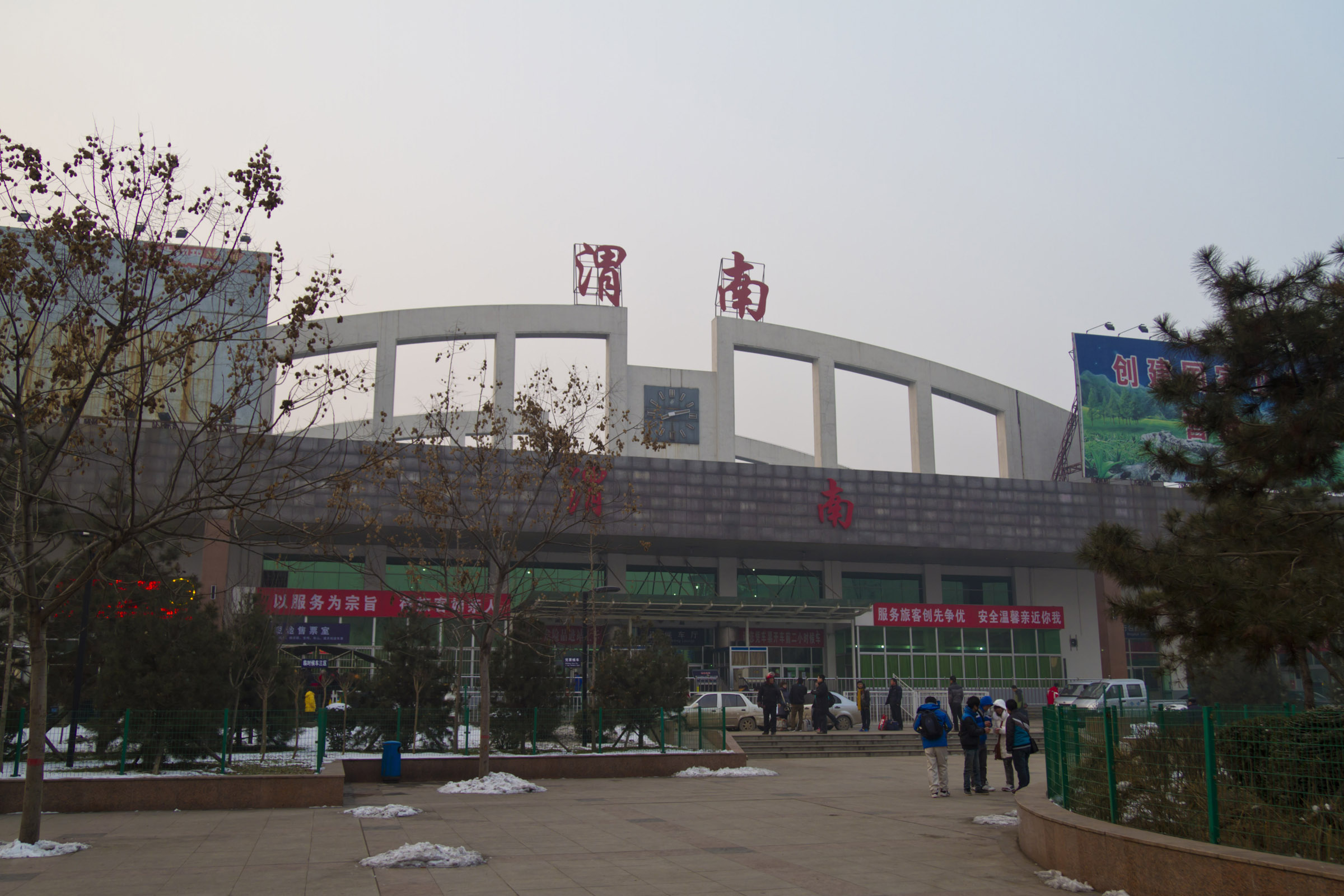 China Railway Longhai Line Weinan Station